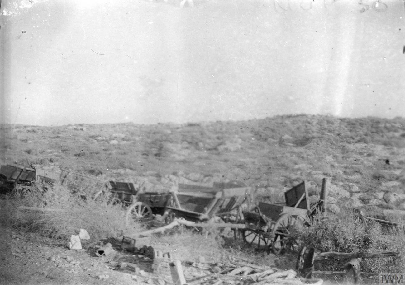 Photograph of wreckage on Tulkarm to Nablus road September 1918 Other information Crown copyright access unrestricted